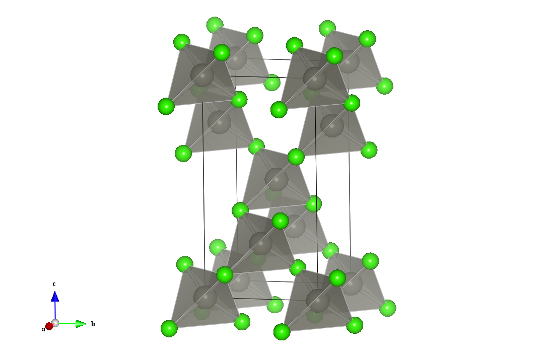 tetragonal high temperature structure of ZnCl2